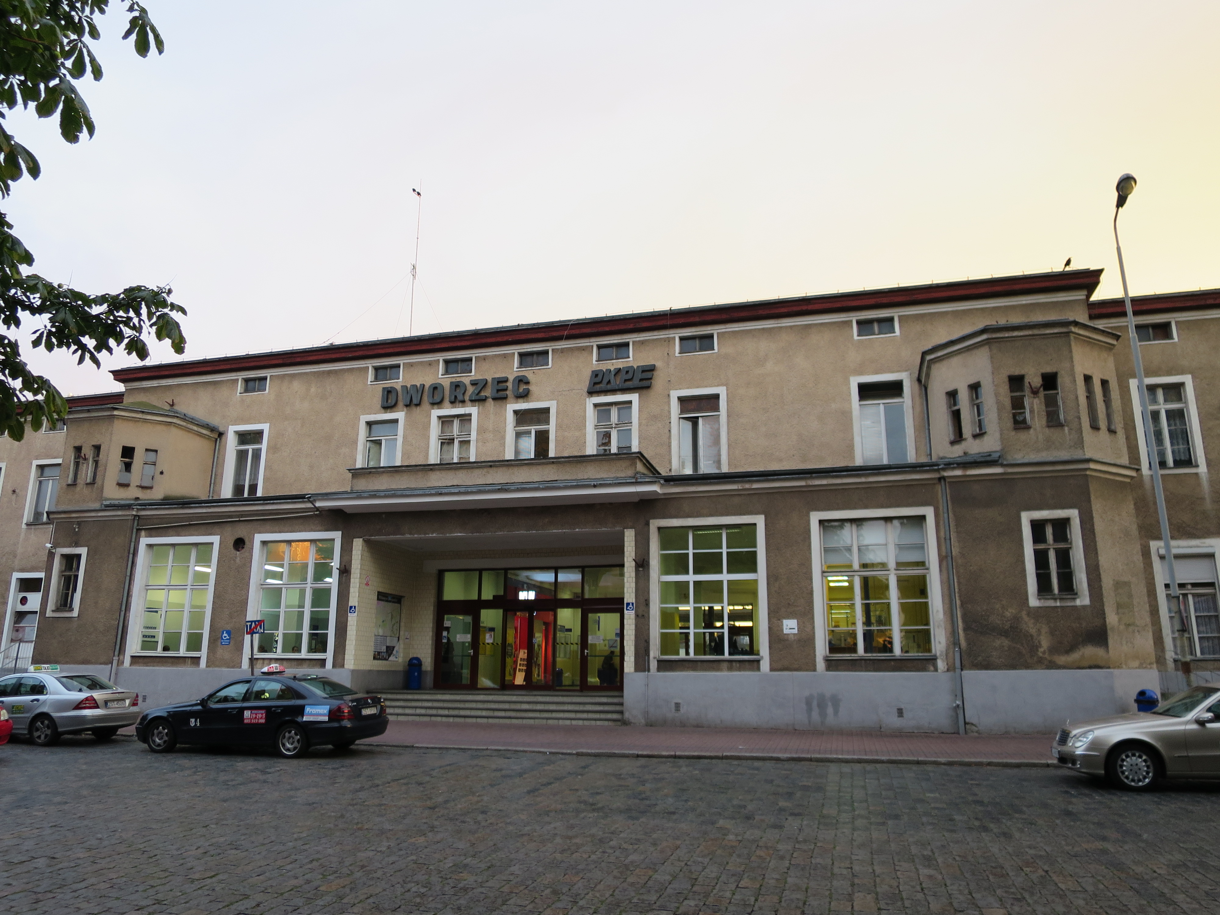 Stargard Szczeciński This photo was taken during Railway Wikiexpedition 2015 set up by Wikimedia Polska Association in cooperation with Fundacja Grupy PKP.You can see all photographs in category Wikiekspedycja kolejowa 2015.